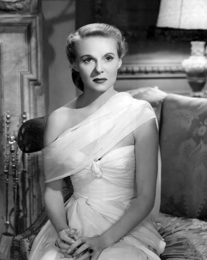 Photo of actress Ann Todd from the film The Paradine Case (1947).